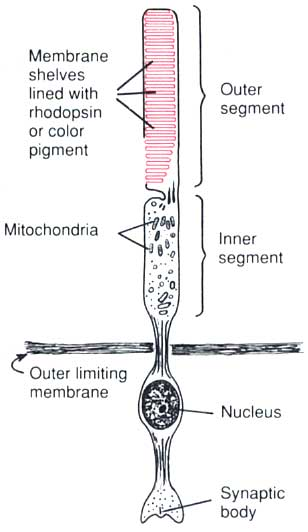 Functional parts of the rods and cones